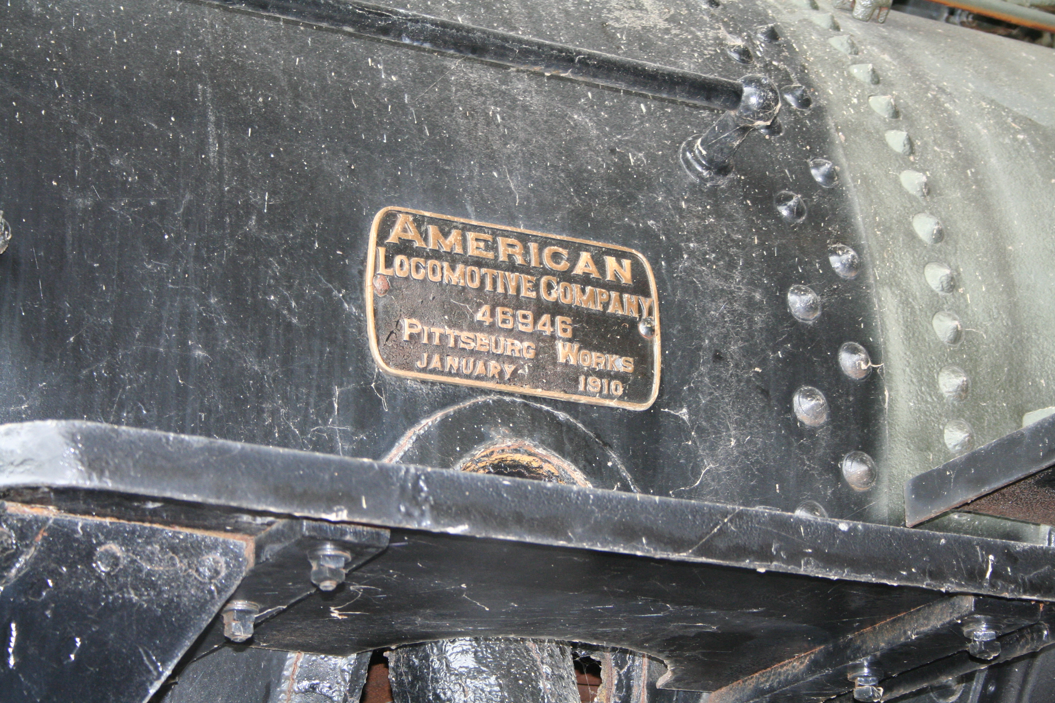 American Locomotive Company 46946, Pittsburg Works, January 1910 Lake Superior and Ishpeming Railroad 2-8-0 Consolidation No. 24 Victor McCormick Train Pavilion, National Railroad Museum, Green Bay, WI